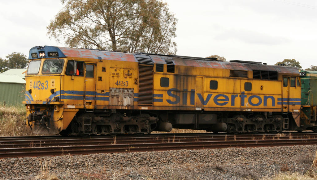 Silverton Rail locomotive 442s3 on ballast train duties in Broadford, Victoria. A renumbered New South Wales 442 class locomotive